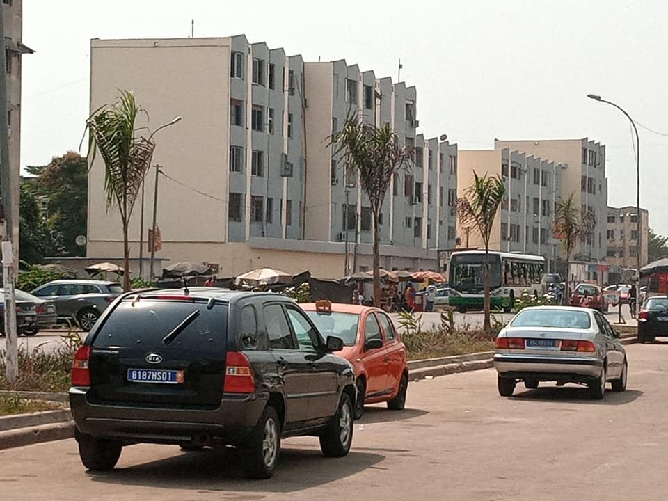 This is an image with the theme "Africa on the Move or Transport" from: Ivory Coast